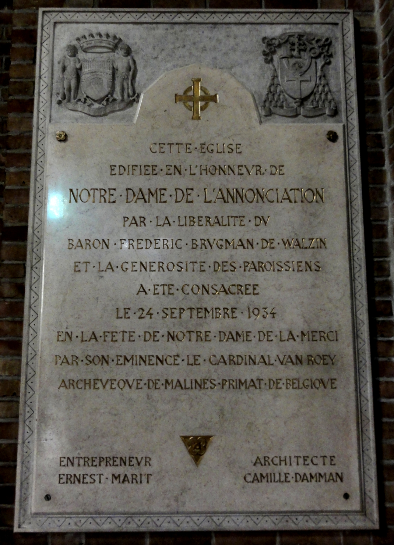 Dedicatory inscription in the Church of Our Lady of the Annunciation in Ixelles (Brussels), Belgium